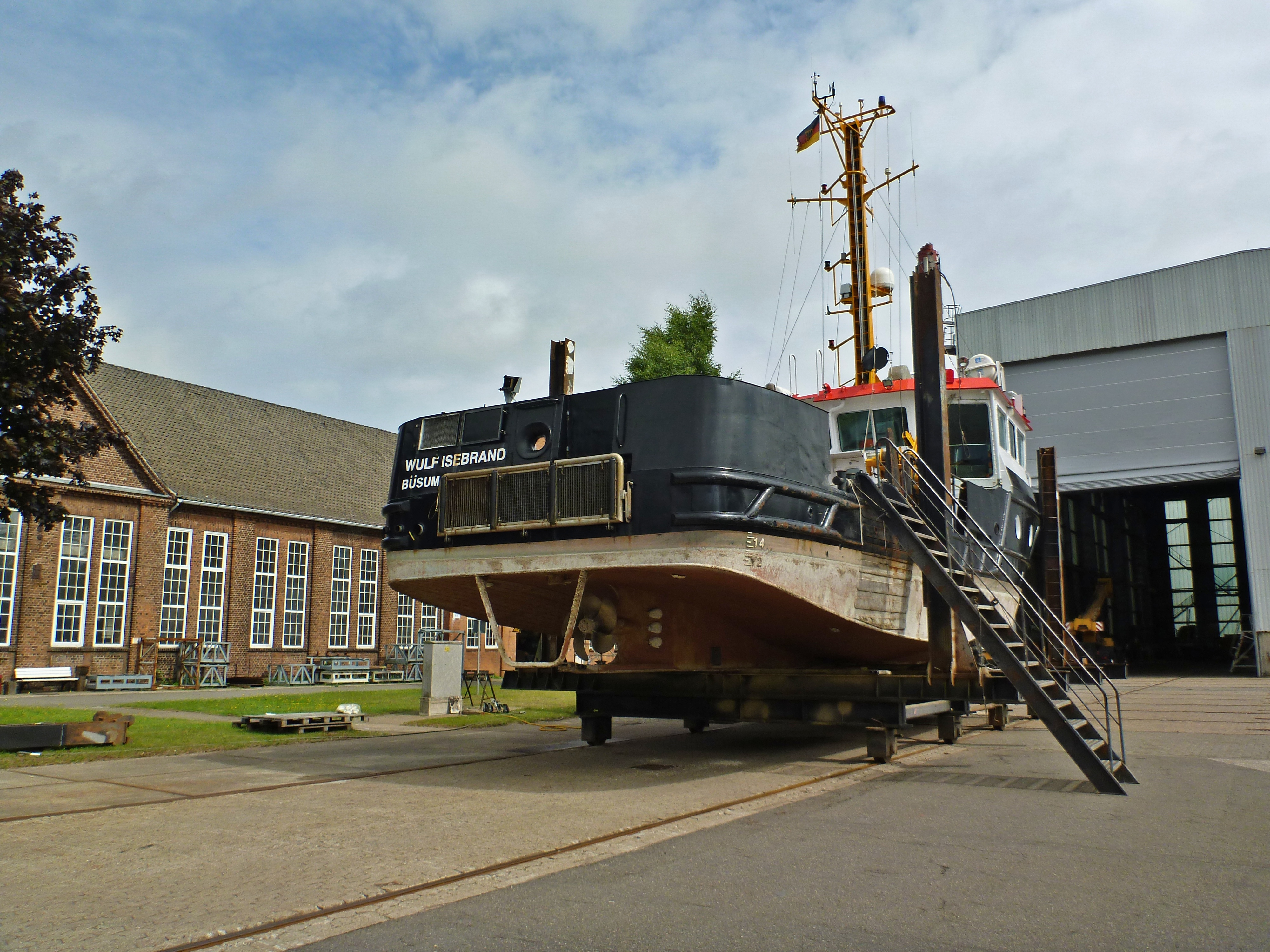 Wulf Isebrand in the yard in Rendsburg, Heck-view